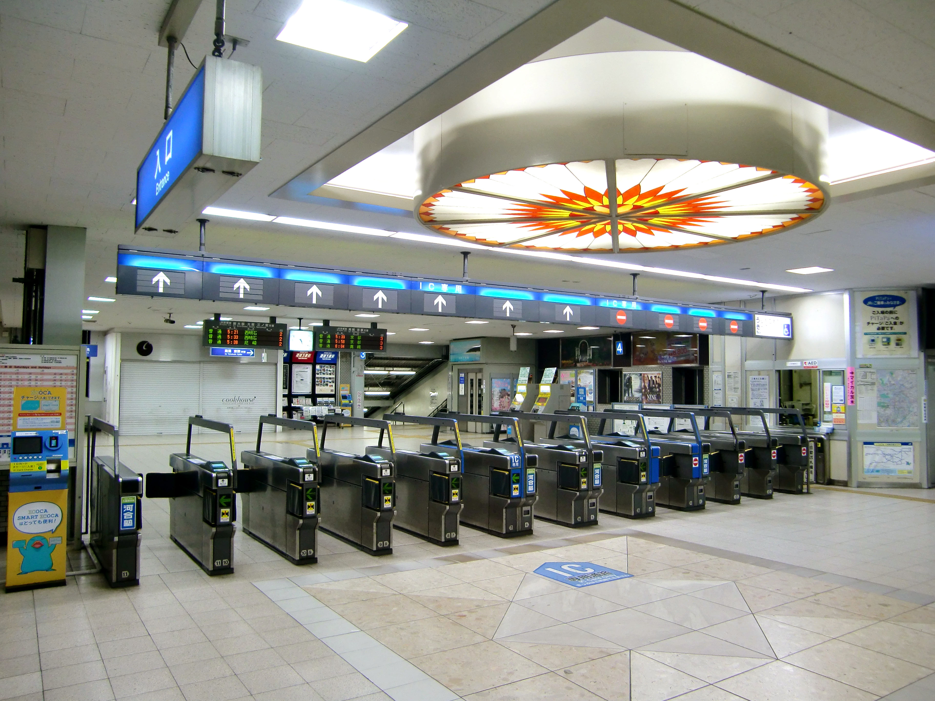 JR Ibaraki Station(Ticket Gate),1-1-10 Ekimae Ibaraki-City Osaka Japan.